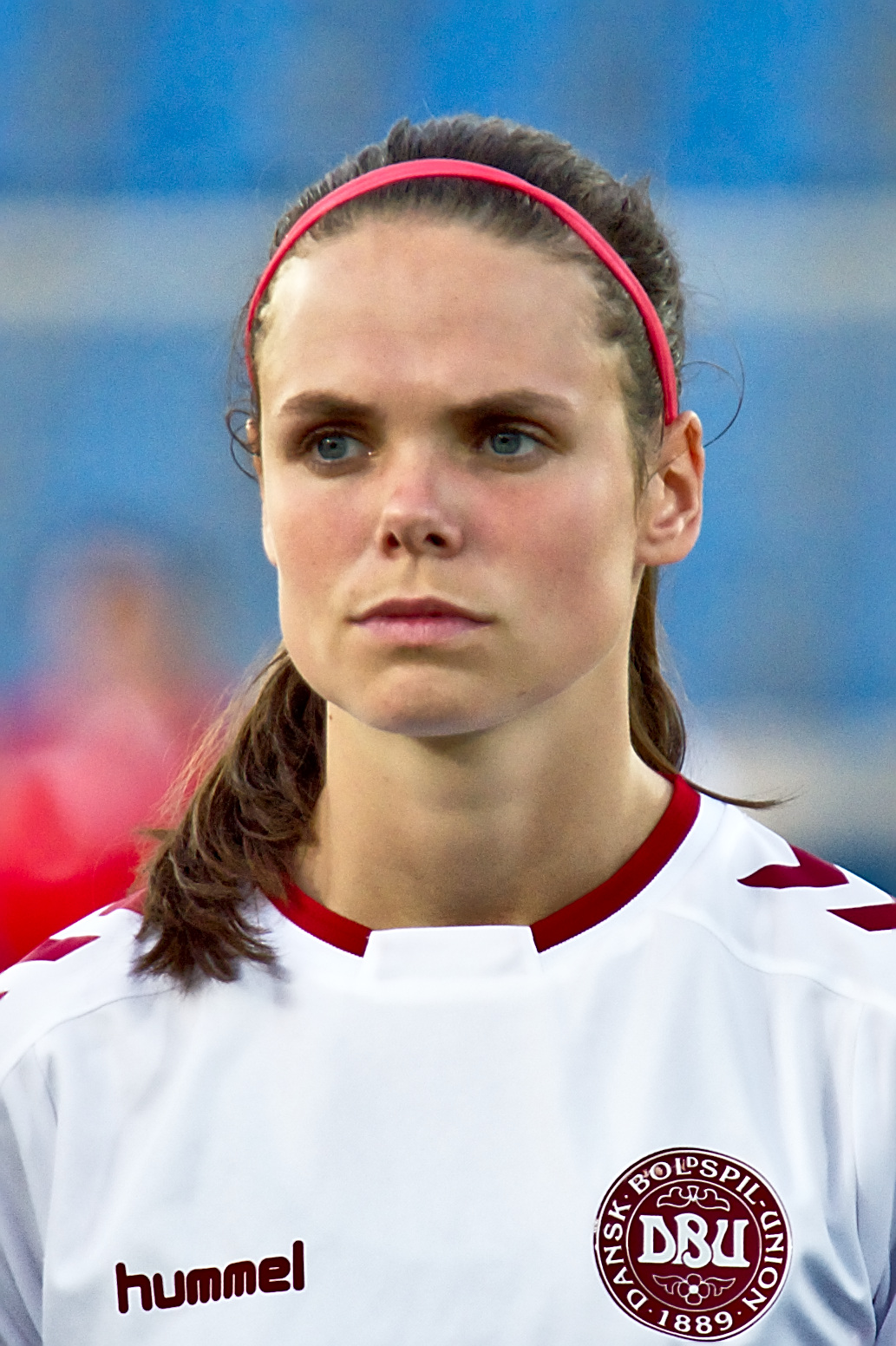 Freundschaftsspiel ÖFB Damen Nationalmannschaft gegen Dänemark am 6. Juli 2017. Bild zeigt: Simone Boye Sørensen